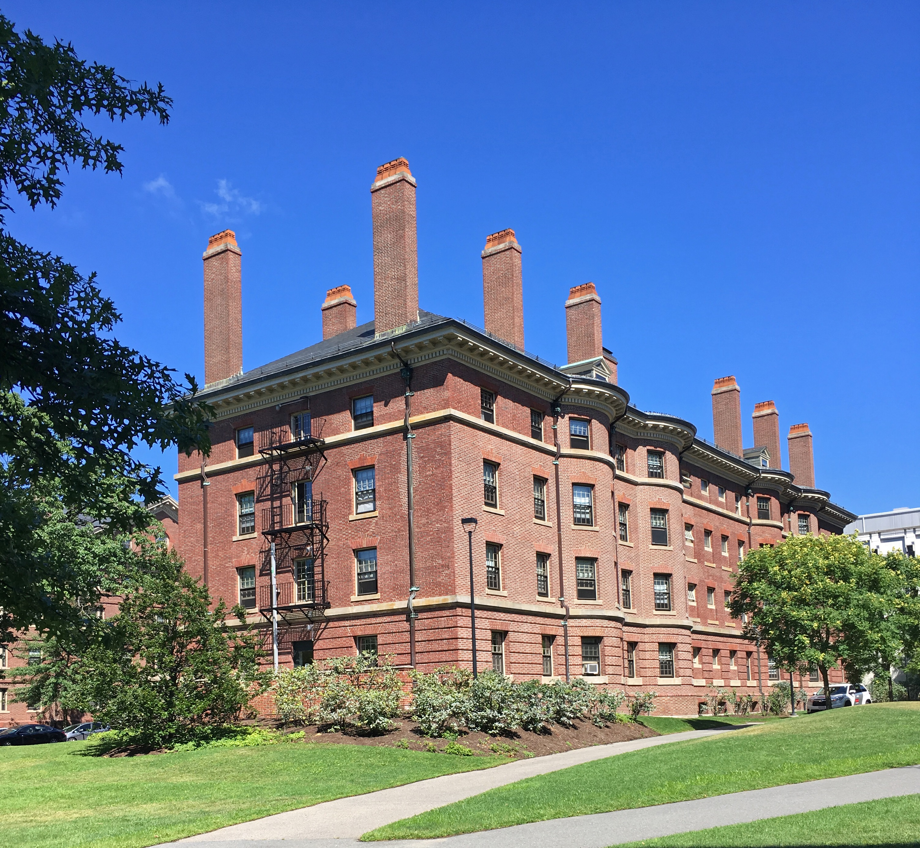 Conant Hall, built in 1894, is one of several graduate student residences at Harvard University.